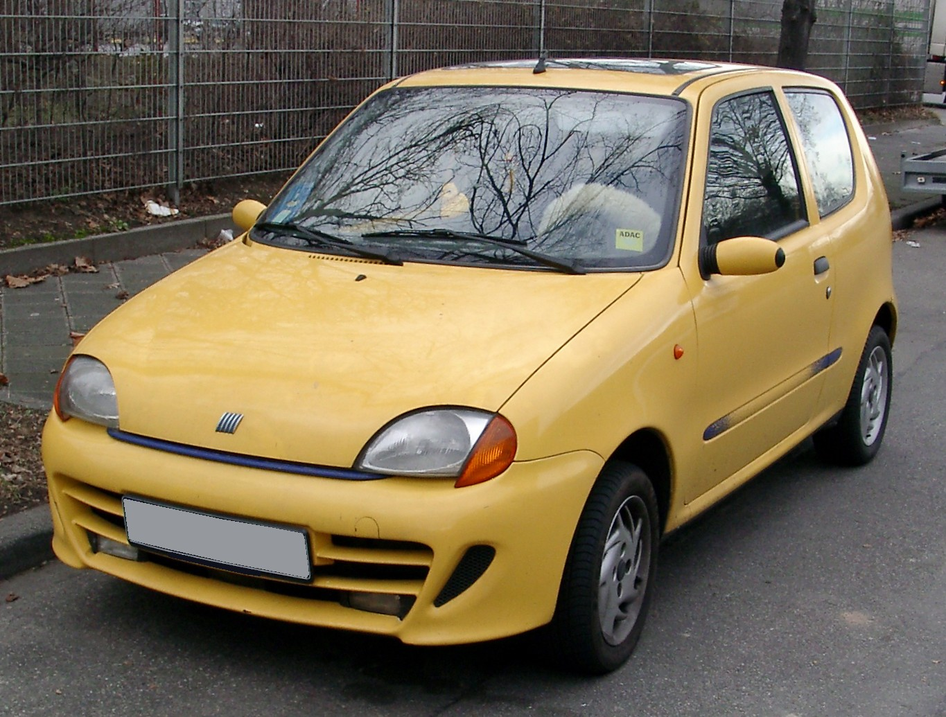 Fiat Seicento Sporting car in Germany.